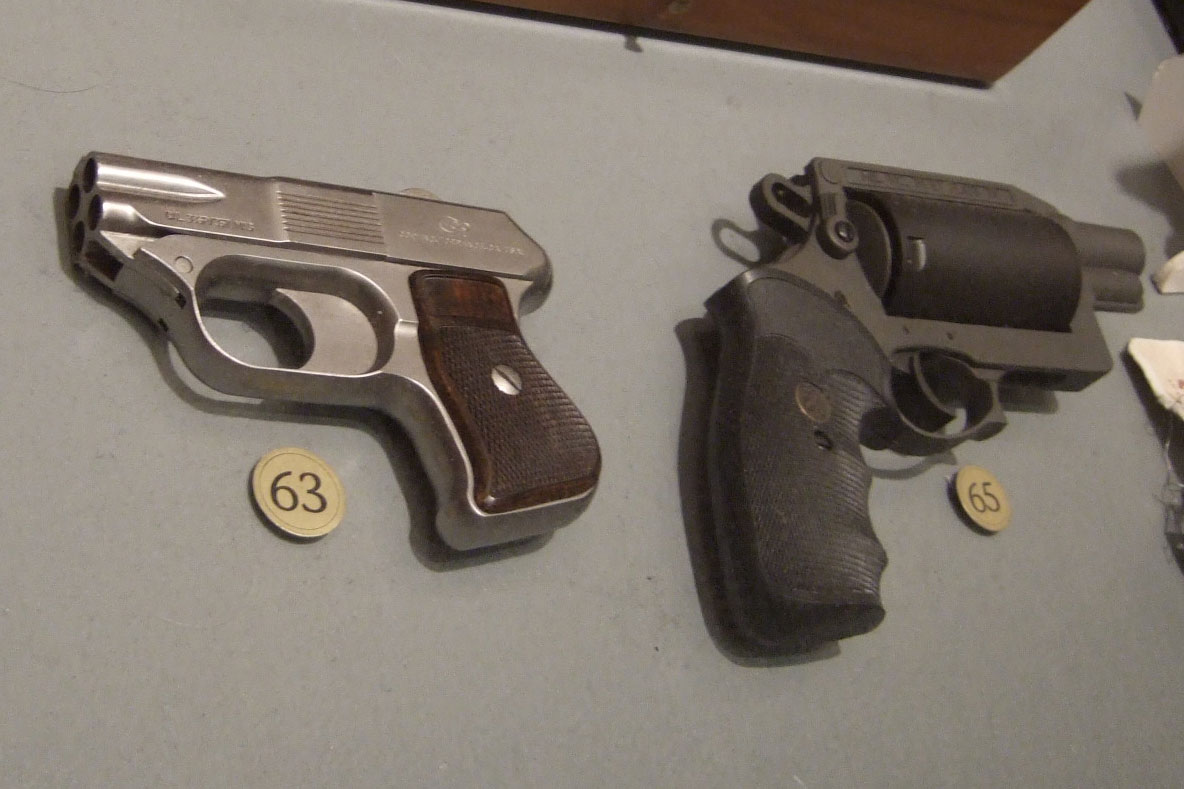 The COP .357 Magnum Derringer and a Thunder 5 revolver that fires .410 gauge shotgun shells.